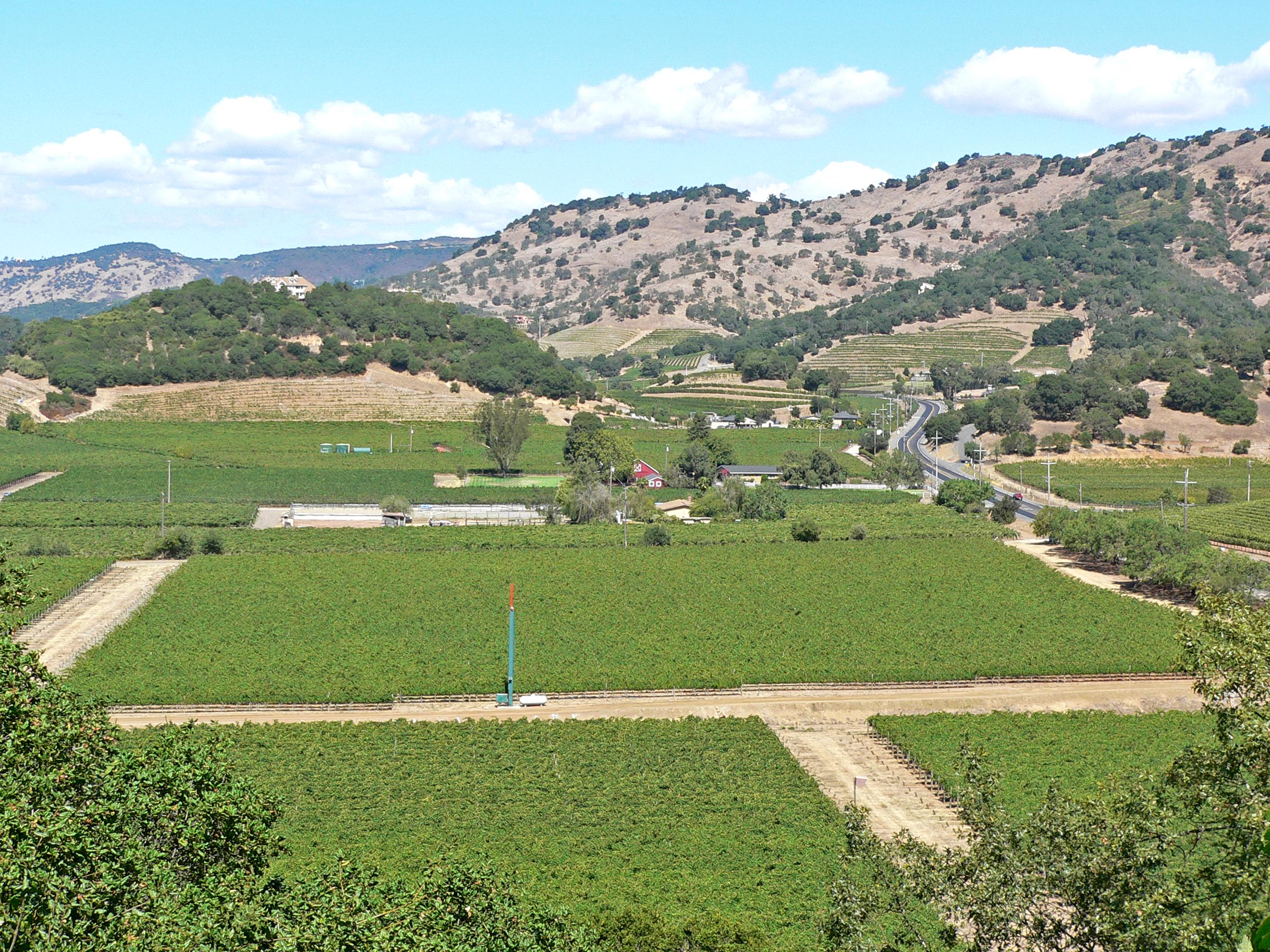 Photo of Napa Valley, California, looking north with Silverado Trail visible